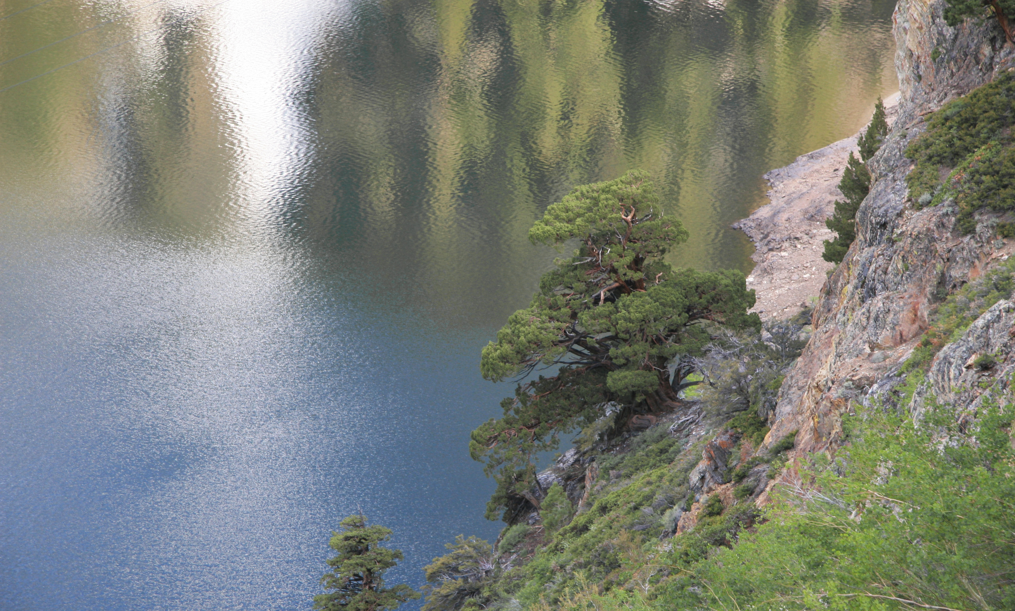 Looking down into Agnew Lake from Rush Creek Trail along cliffs at 9160ft, with large Sierra Juniper (Juniperus occidentalis subsp. australis) above bank and rippled reflection of trees and snow on lake behind. Ansel Adams Wilderness, Sierra Nevada USA.